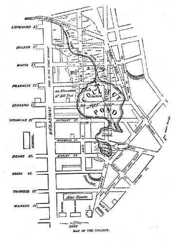 Map of the Future Five Points intersection and neighborhood superimposed over the former Collect Pond